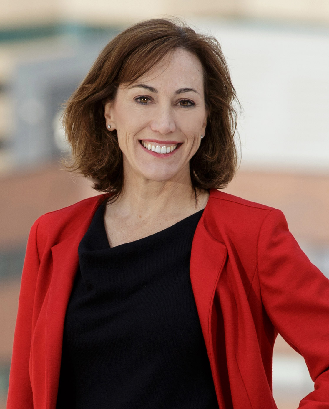 Janine A. Davidson, president of Metropolitan State University of Denver